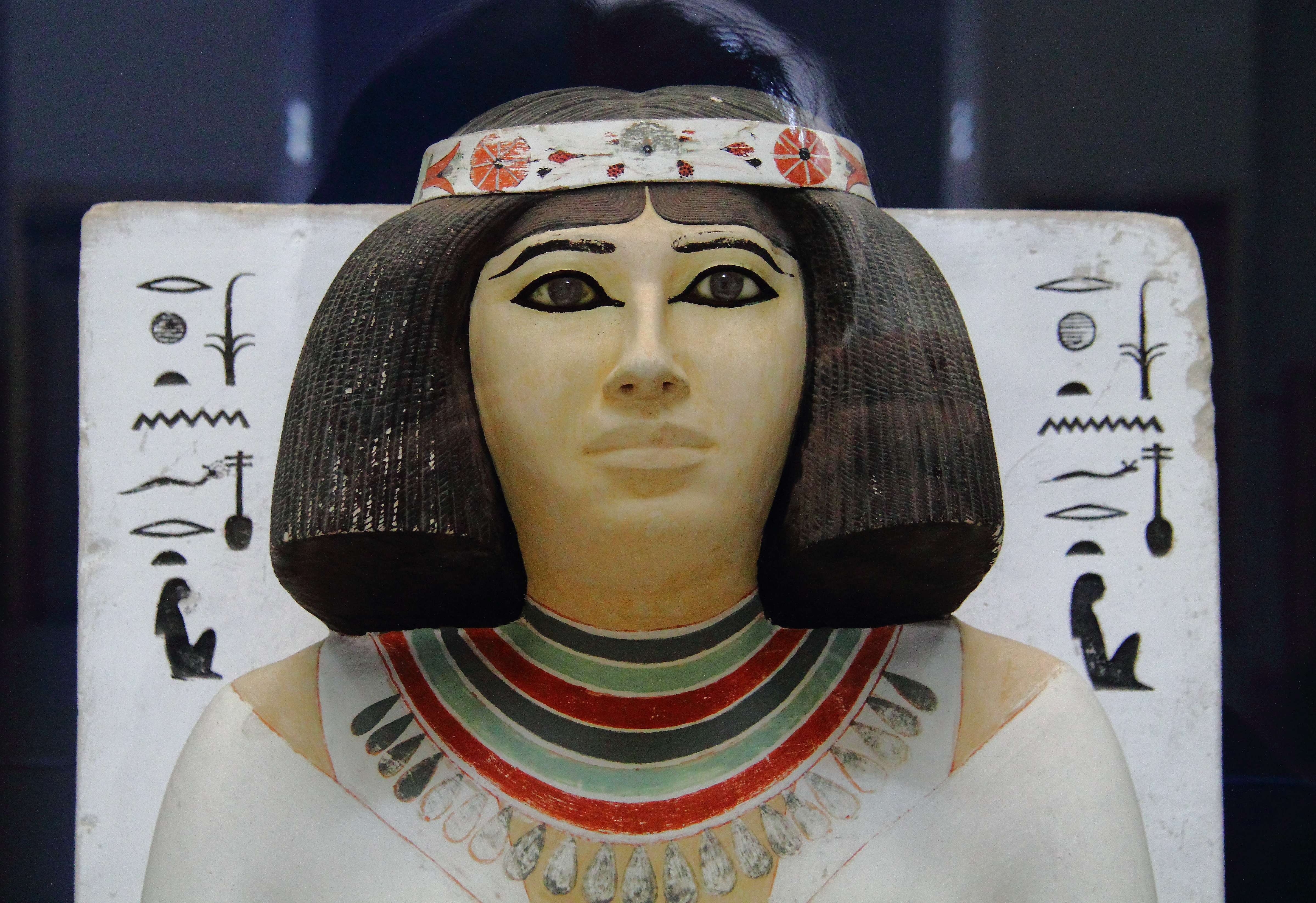 Egyptian Museum Cairo: Nofret, wife of Prince Rahotep, tomb statue from Meidum